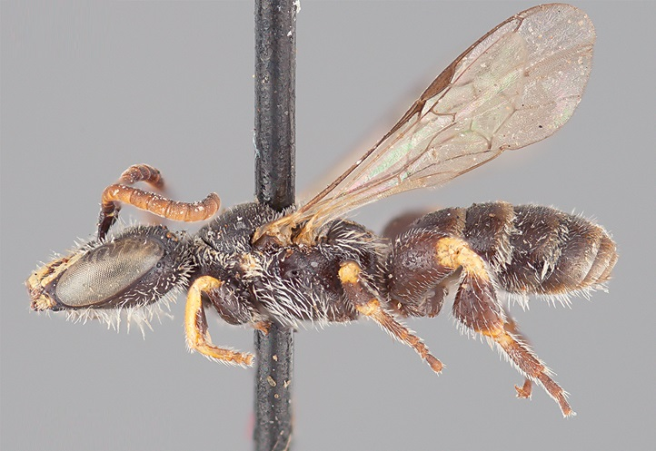 Male of Chilicola mantagua